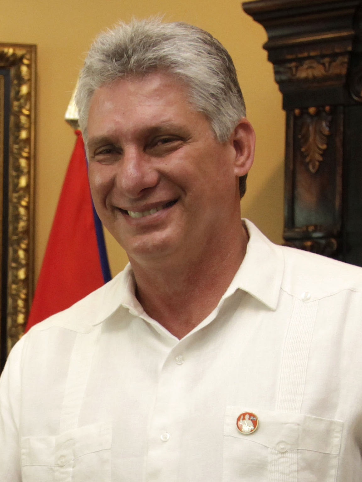 Salvador Sanchez Ceren recibe a VicePresidente de Cuba, Miguel Diaz Canel. This file has been extracted from another file: Diaz-canel.jpg